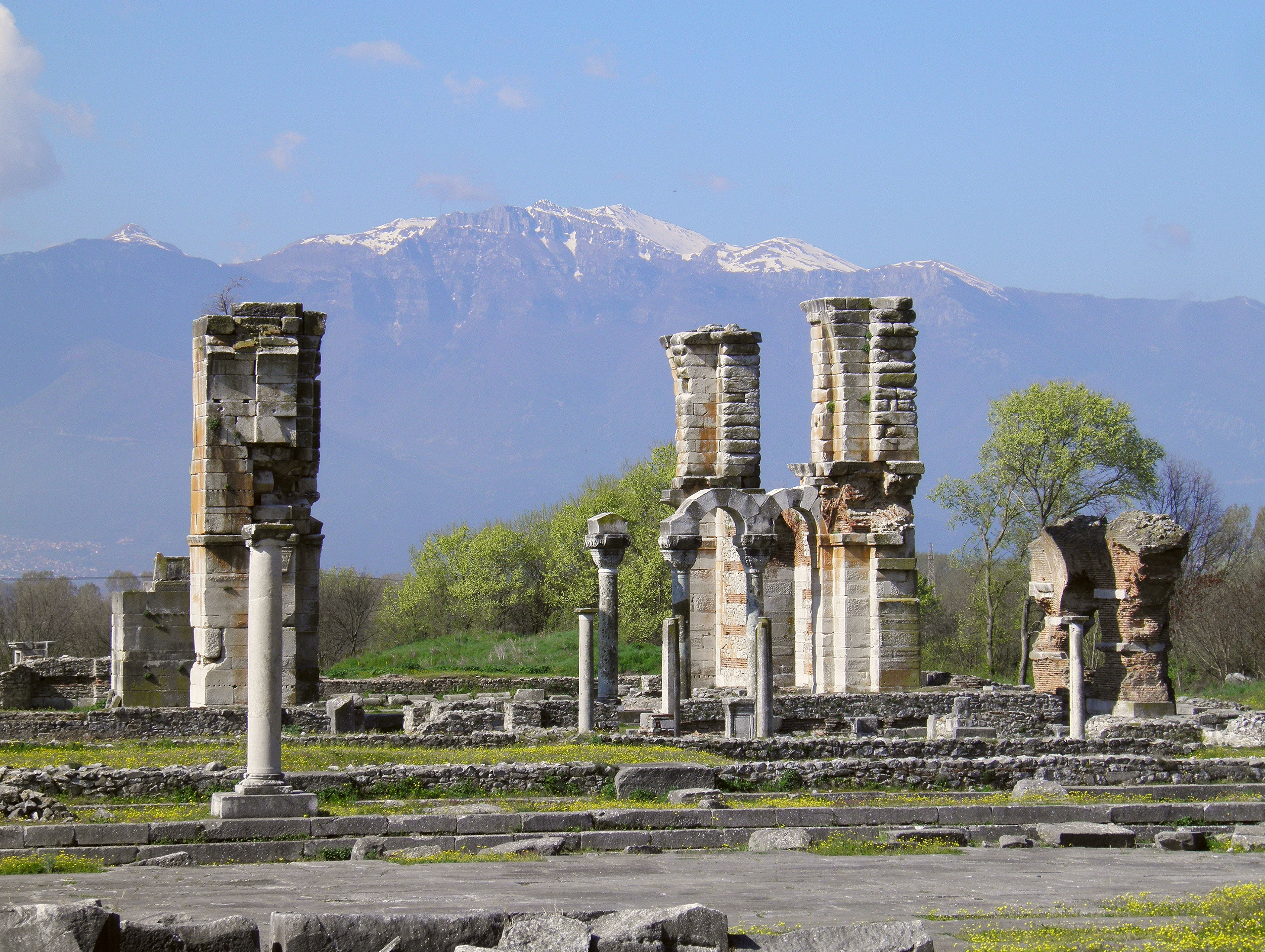 View on the basilica B with Pangaion Hills in the background, Philippi